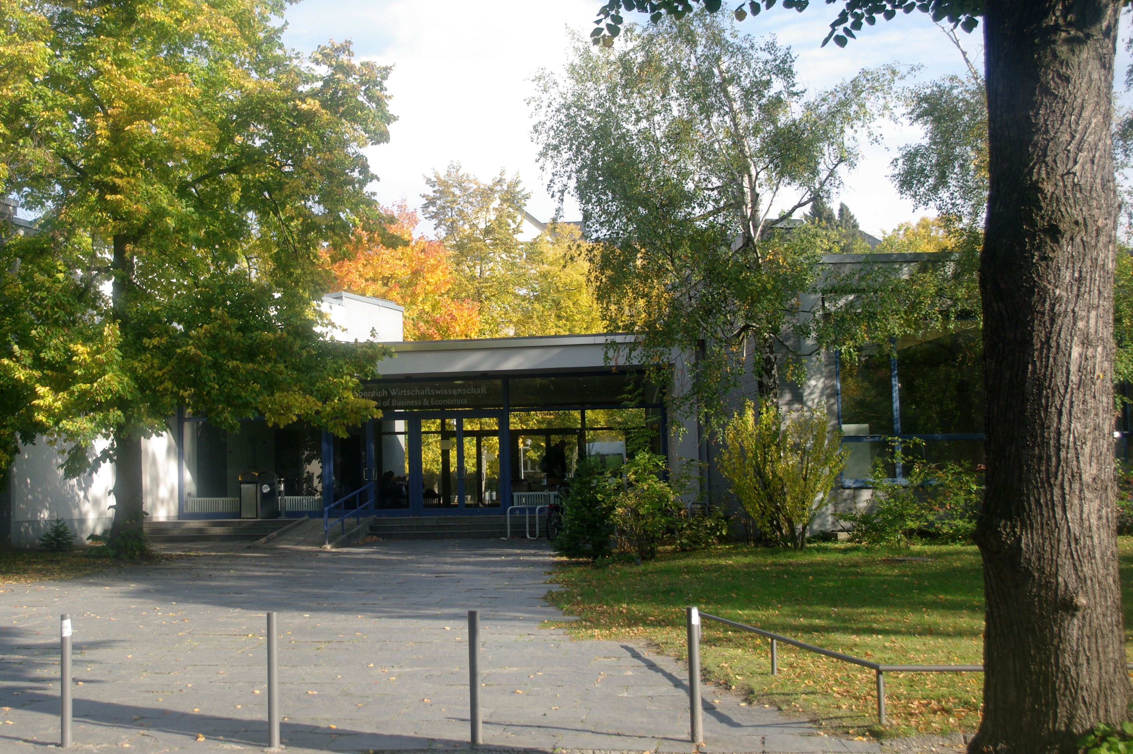 Building of the School of Business and Economics of Free University Berlin, taken at the Free Culture Research Conference 2010